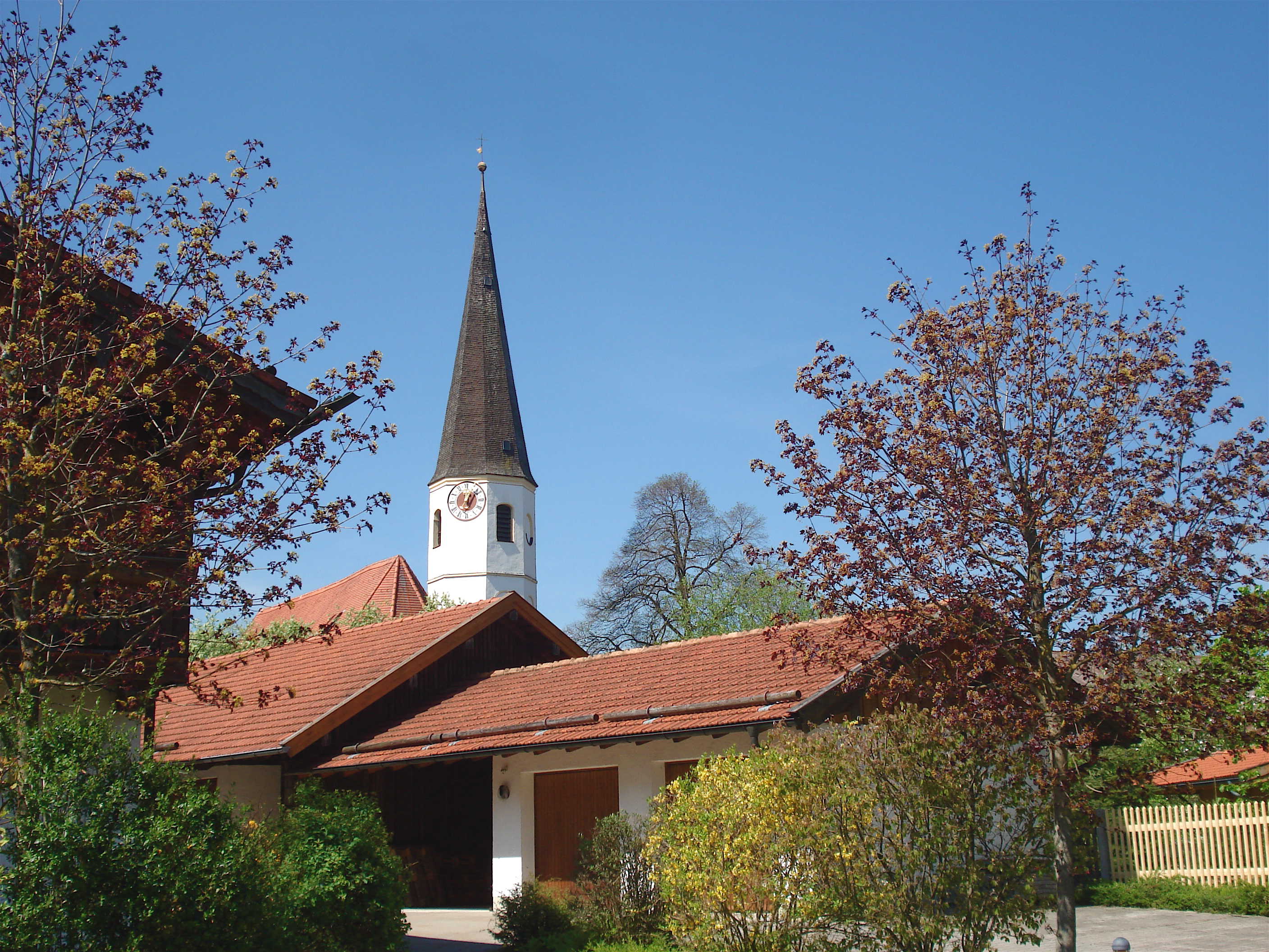 German village close to the Alps: Otterfing. St. Georg Church in background (Bayern - Germany)